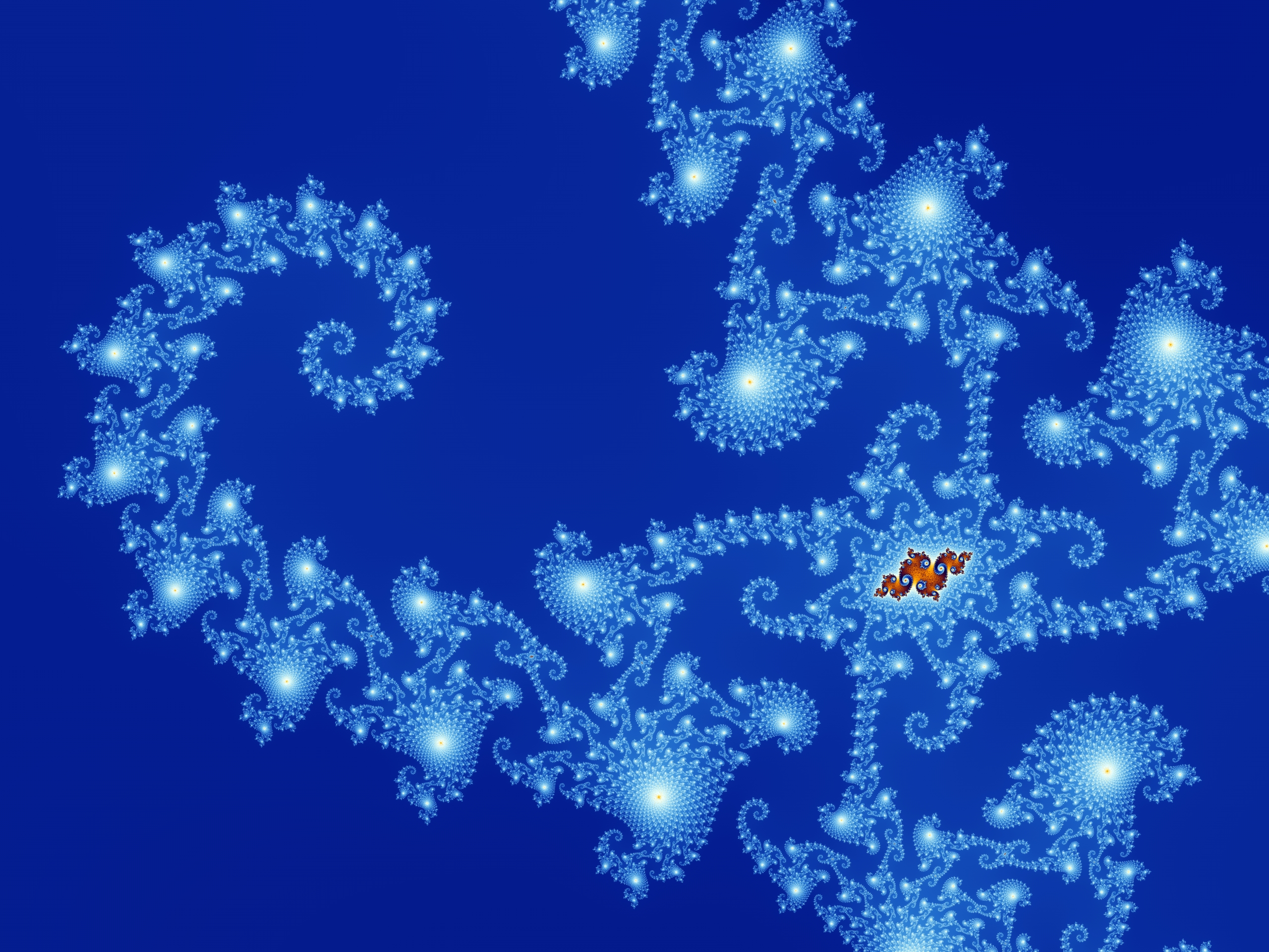 Partial view of the Mandelbrot set. Step 13 of a zoom sequence: Part of the "double-hook". Coordinates of the center: Re(c) = -.743,643,887,173,42, Im(c) = .131,825,904,251,82 Horizontal diameter of the image: .000,000,000,598,49 Magnification relative to the initial image: 5,141,100,000 Created by Wolfgang Beyer with the program Ultra Fractal 3. Uploaded by the creator.